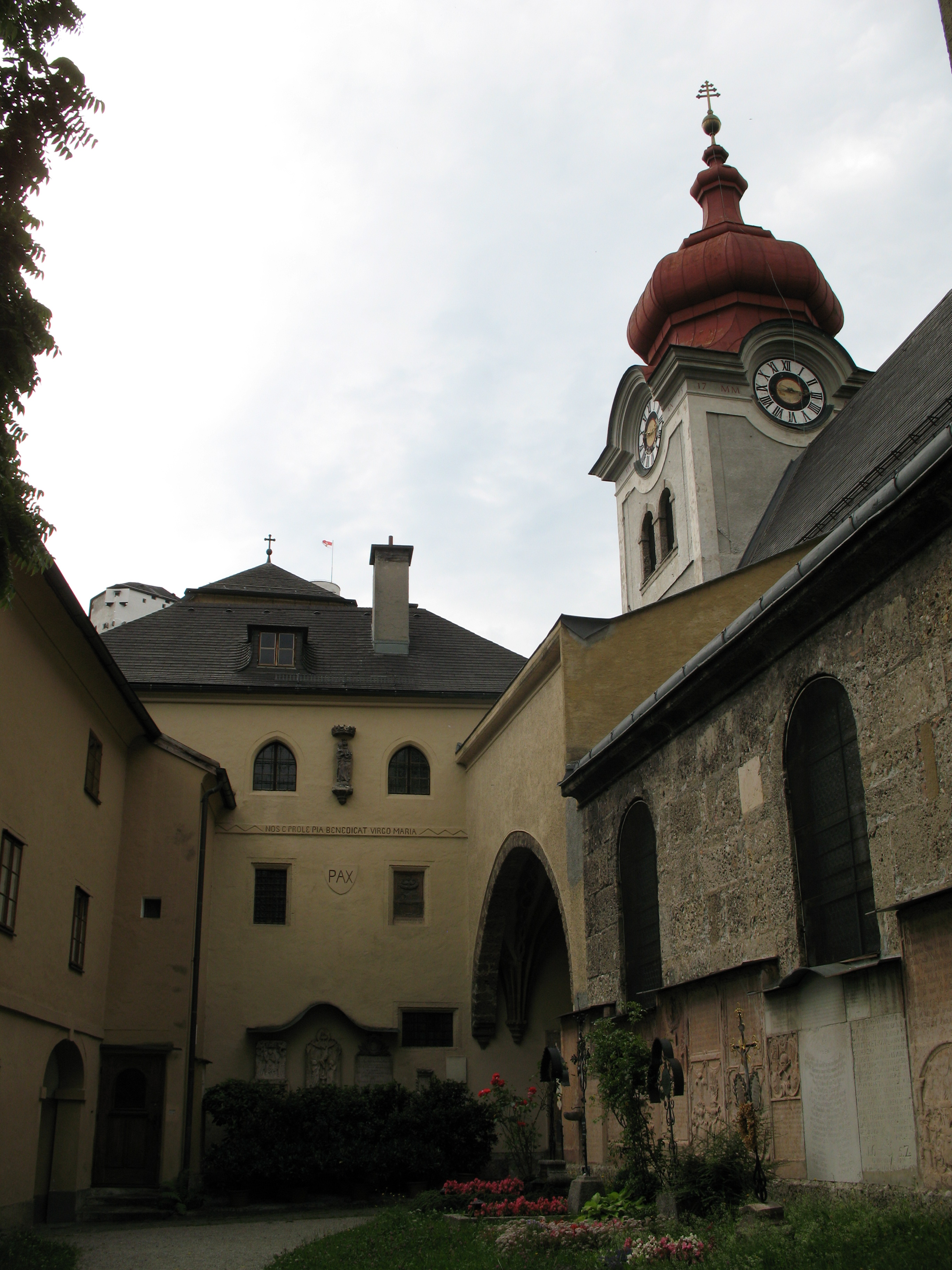 Nonnberg Abbey, Salzburg, Austria